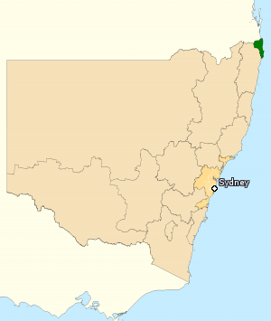 Incorporates or developed using Administrative Boundaries ©PSMA Australia Limited licensed by the Commonwealth of Australia under Creative Commons Attribution 4.0 International licence (CC BY 4.0). Derived from State and Territory Boundaries from the Australian Bureau of Statistics under Creative Commons Attribution 2.5 Australia license (CC BY 2.5 AU)